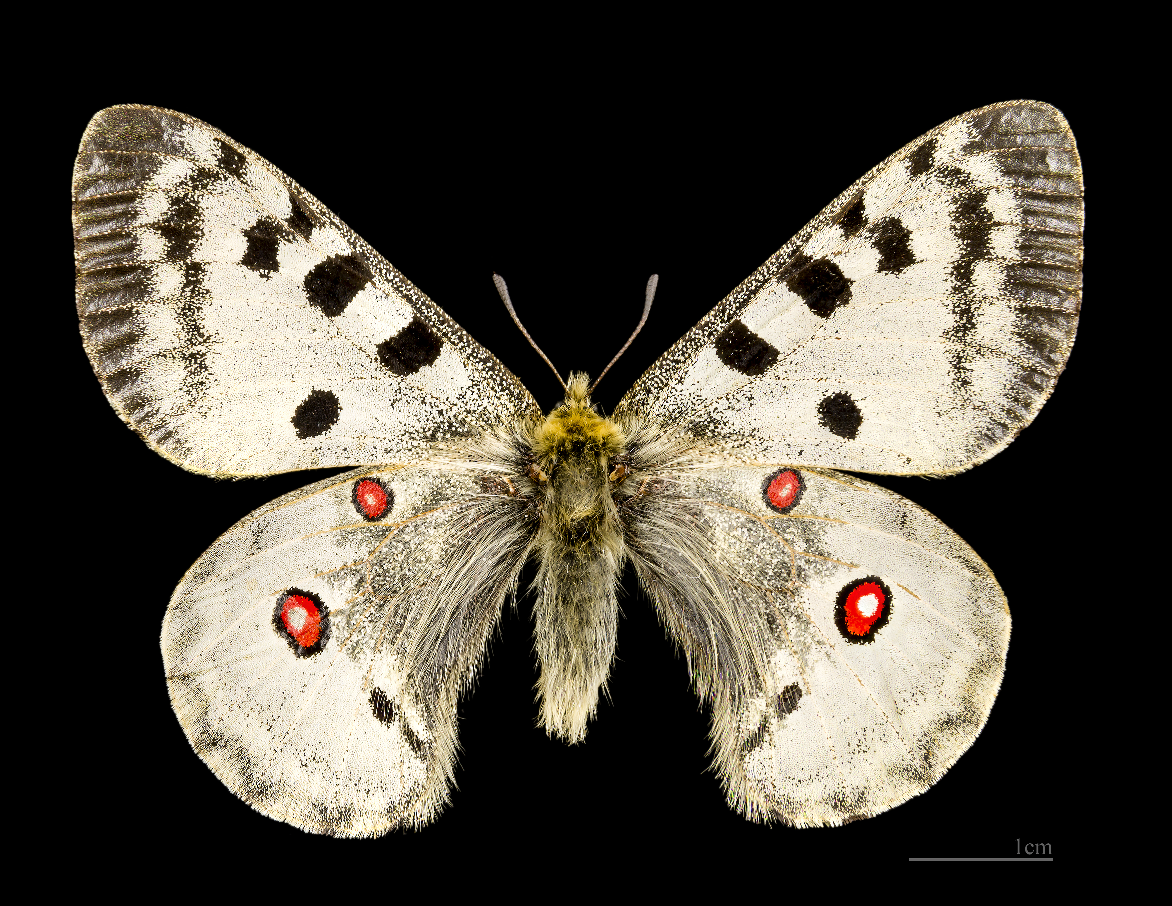 Mountain Apollo. Dorsal side.